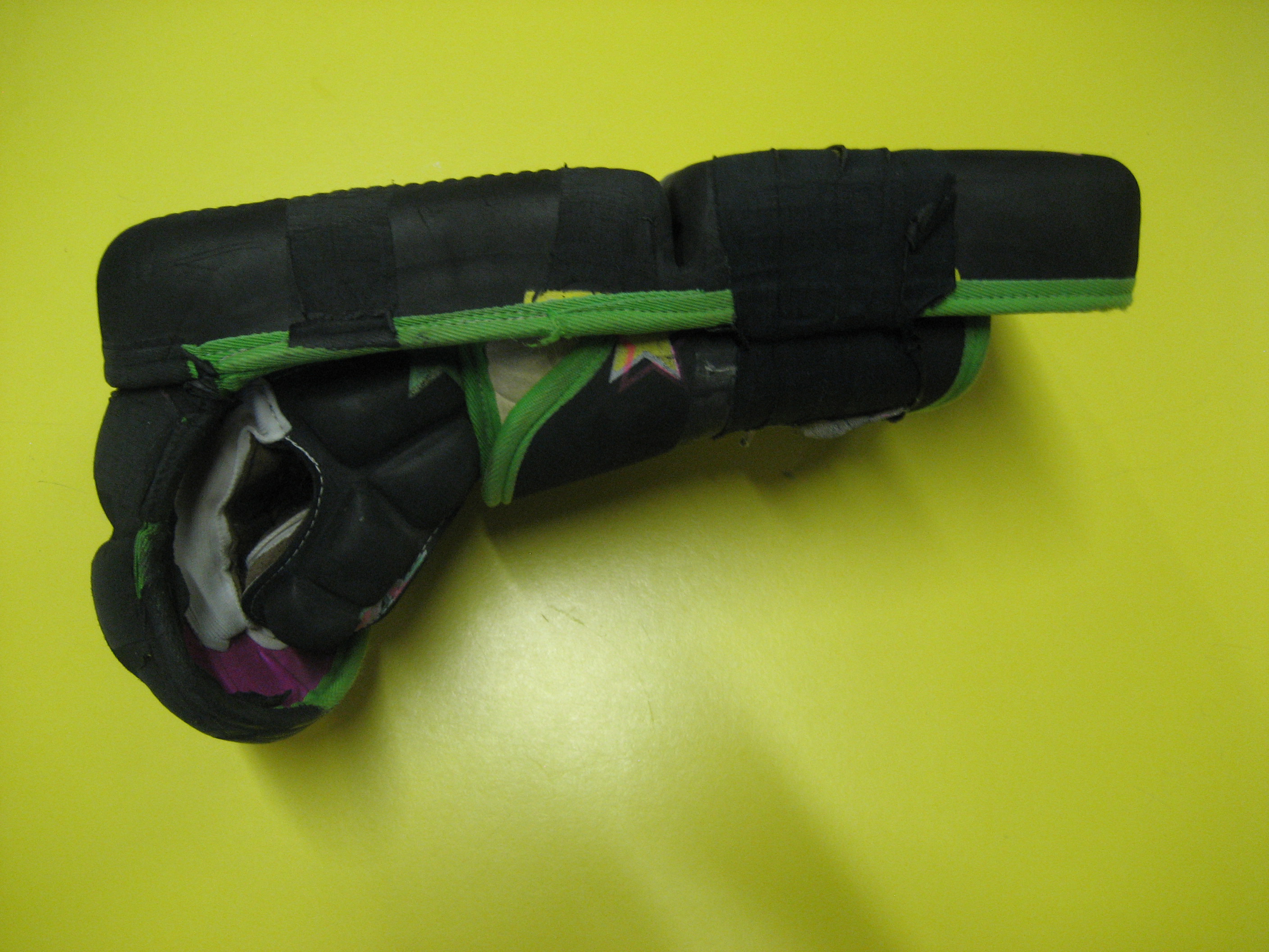 Roller hockey (Quad) Goalie uses a blocking stick glove that provides rebound characteristics when blockiing a shot on goal while also providing access to a stick.